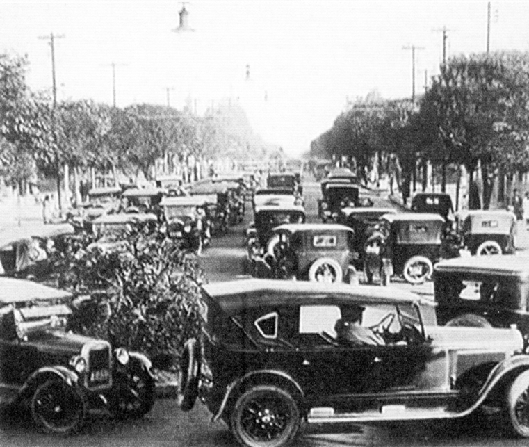 Avenue Paulista in 1928